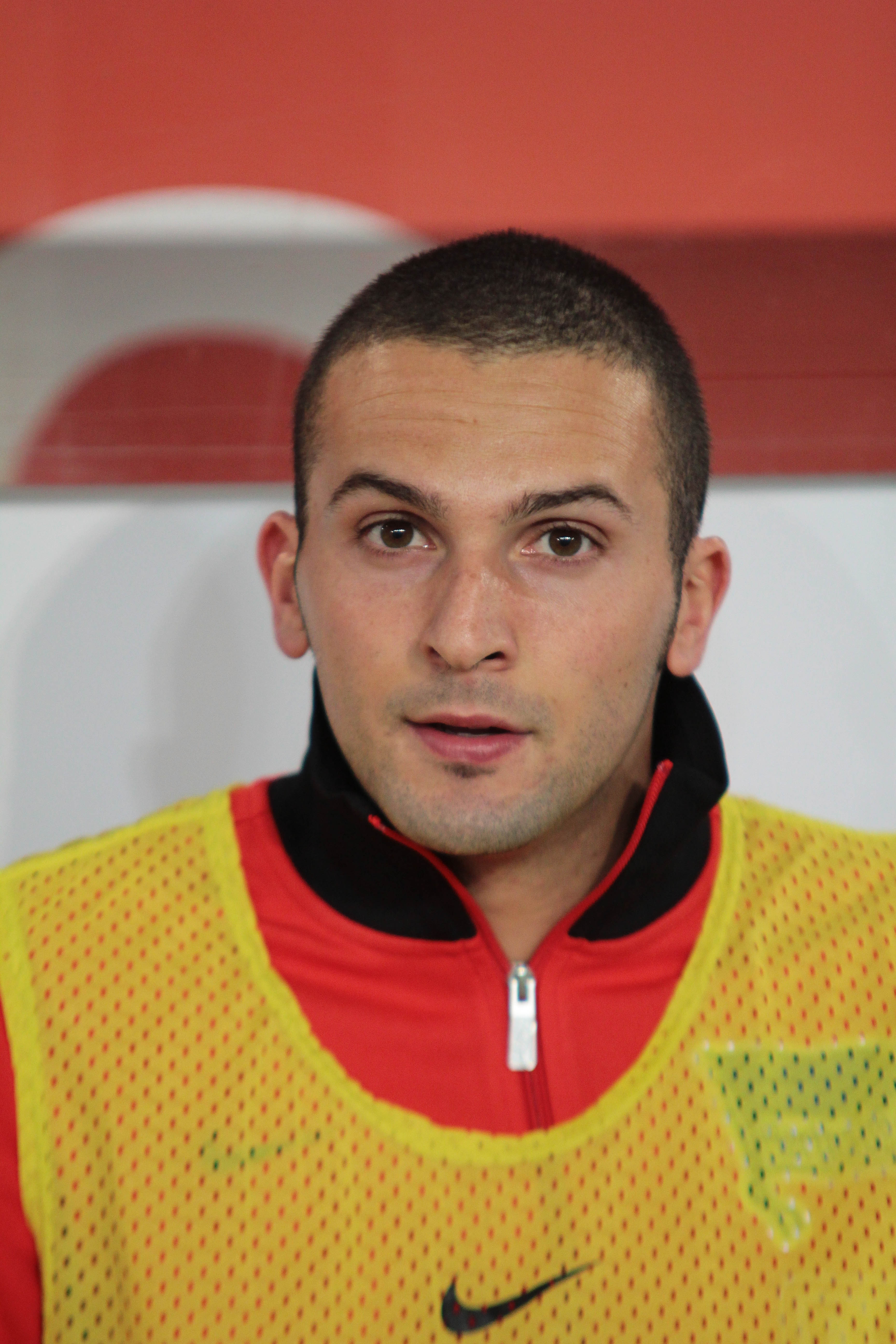 Israeli footballer Ben Sahar, Hertha BSC